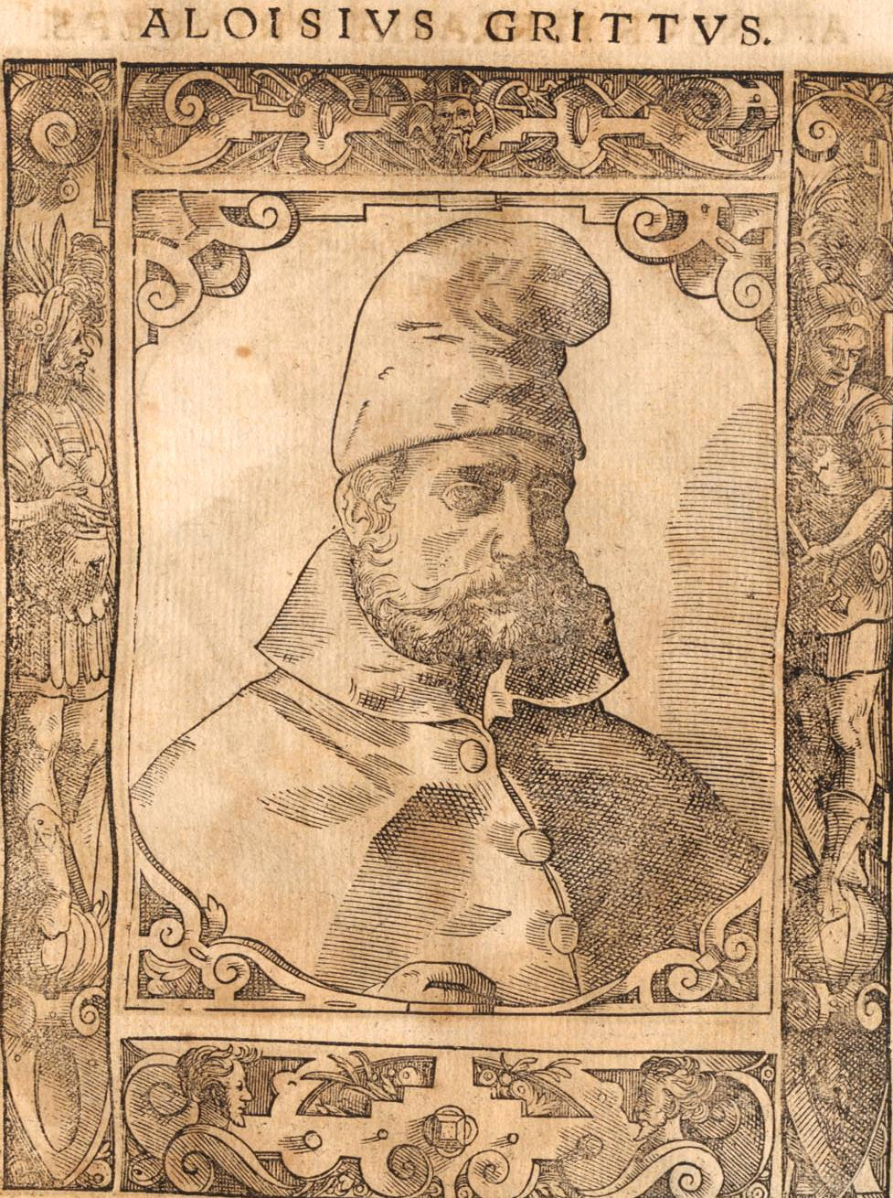 Lodovico Gritti, 1480-1534